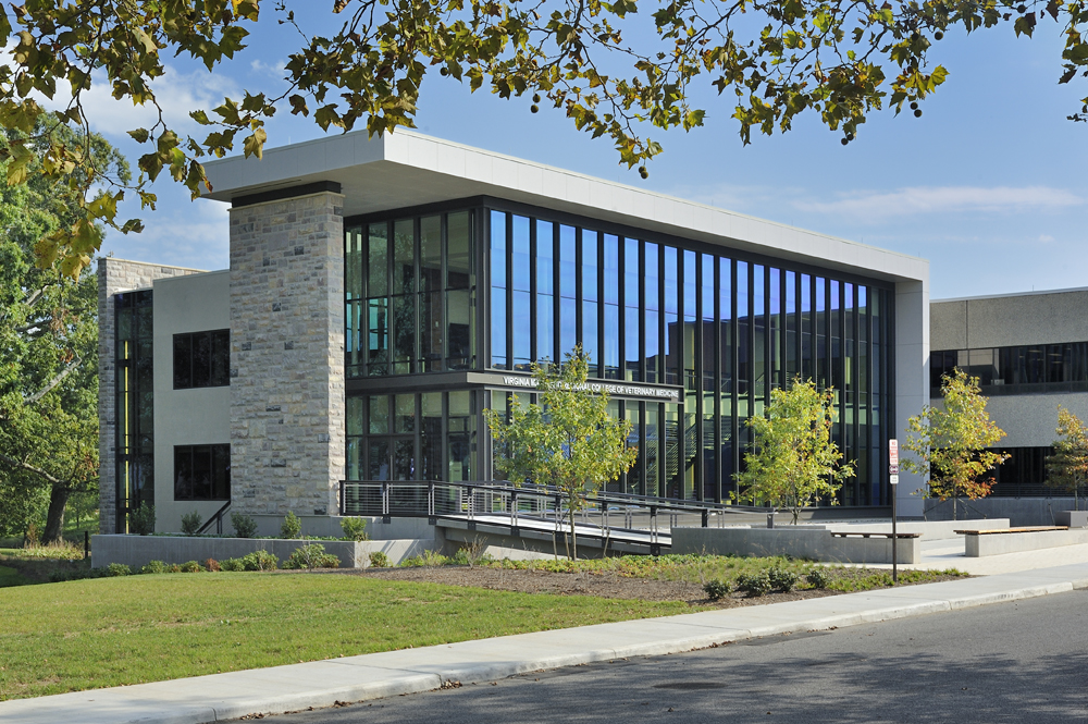 Veterinary Medicine Instruction Addition at the Virginia-Maryland Regional College of Veterinary Medicine in Blacksburg, Va.